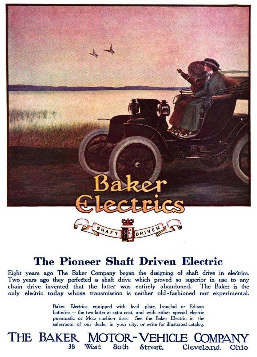 The Baker Motor-Vehicle Company - Baker Electric - May 15, 1911